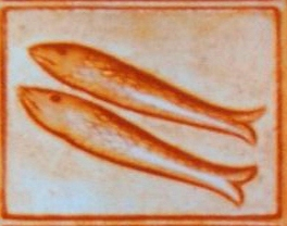 8th Auspicious dream in Jainism The eighth dream saw two fishes playing gloriously in a lovely pool of water, full of lotuses. Son will bring propitious outcomes for all living beings.